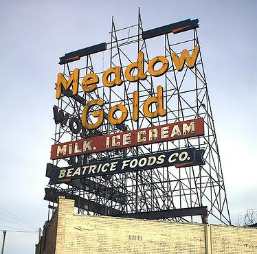 Meadow Gold sign before removal